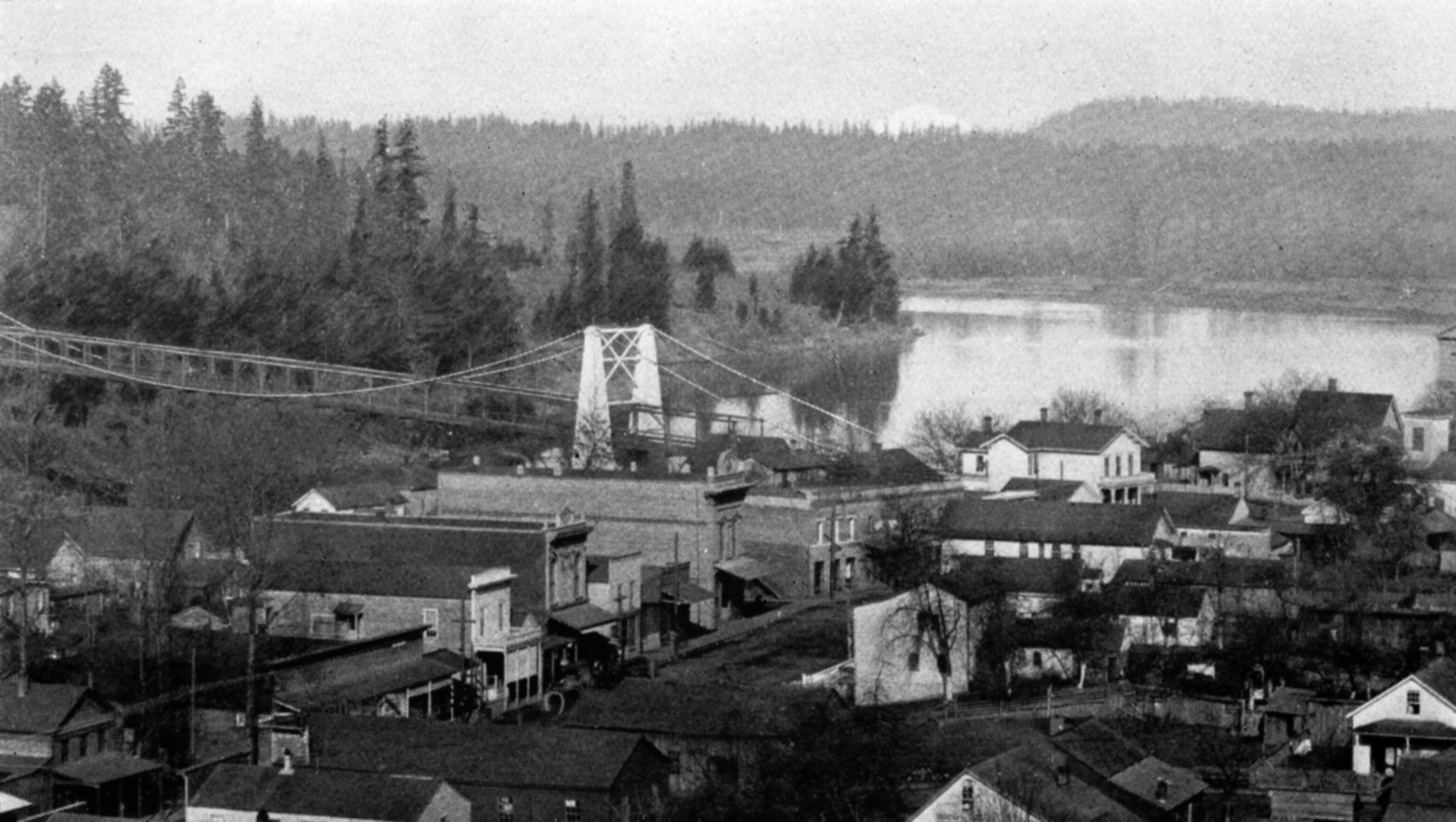 Bridge was built in 1888; photo was published in 1891. Mount St. Helens visible in background. p. 141 from scans